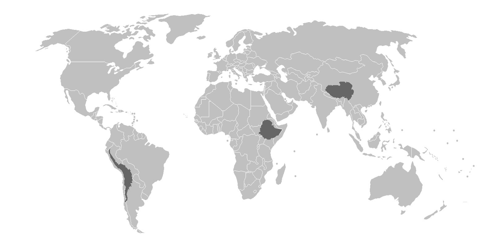 From left to right; the Andean, Simian, and Tibetan Plateaus have populations that have adapted to their high altitude environments.